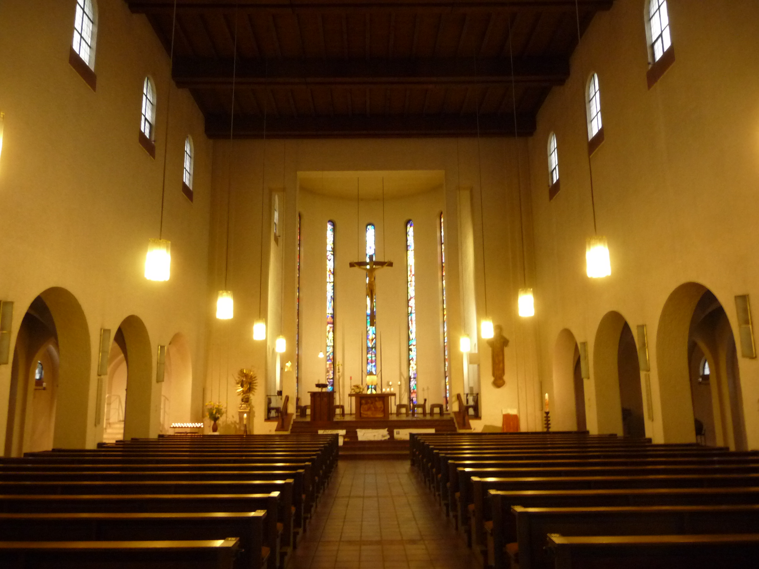 Bonifatiuskirche Ludwigshafen